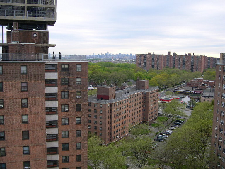 Looking south on a cloudy day in Soundview, The Bronx.